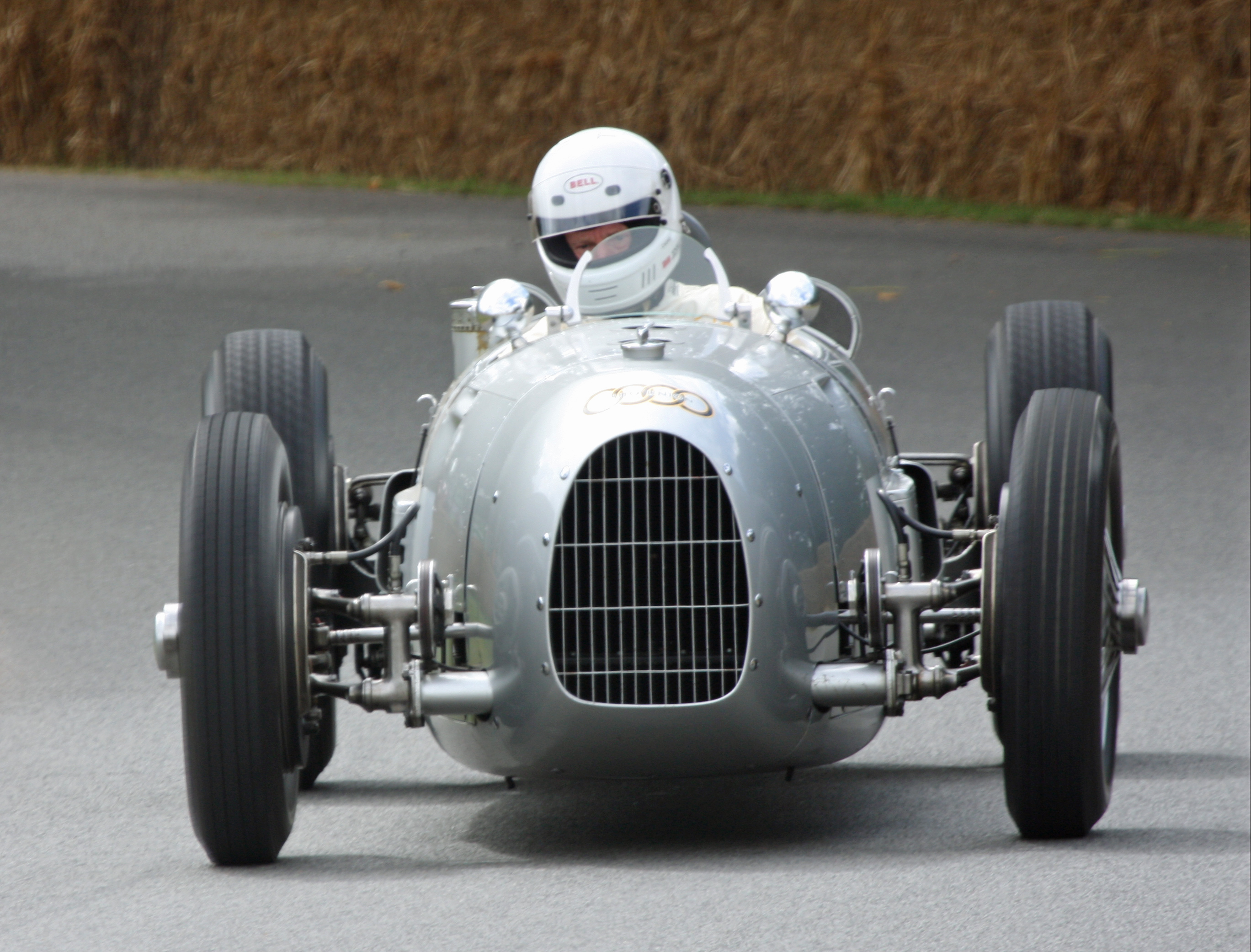 1934 Auto Union Type A replica